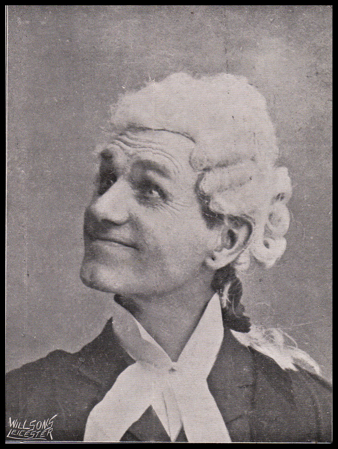 Photograph of Mark Melford, Actor and Author, 1850-1914. From the cover of playscript of Non-suited by Mark Melford.